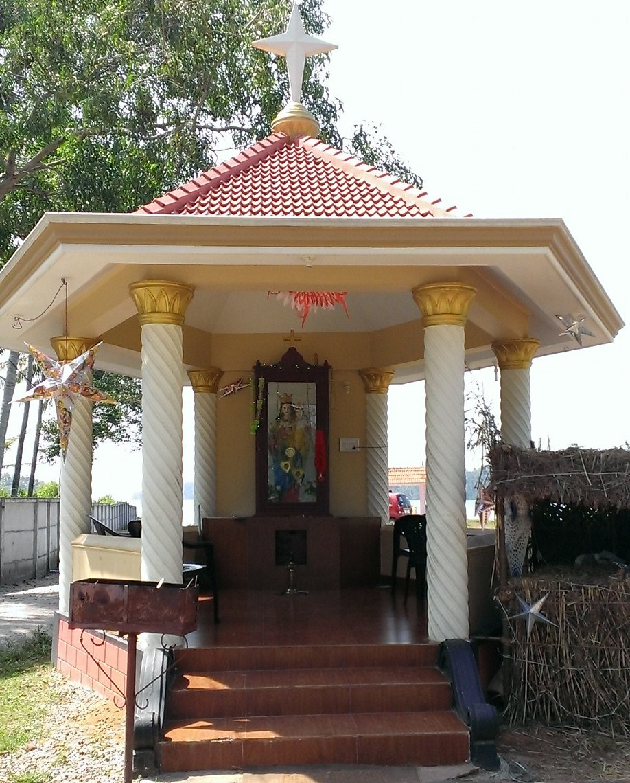 Grotto of Mother Mary in Onambalam Harbor